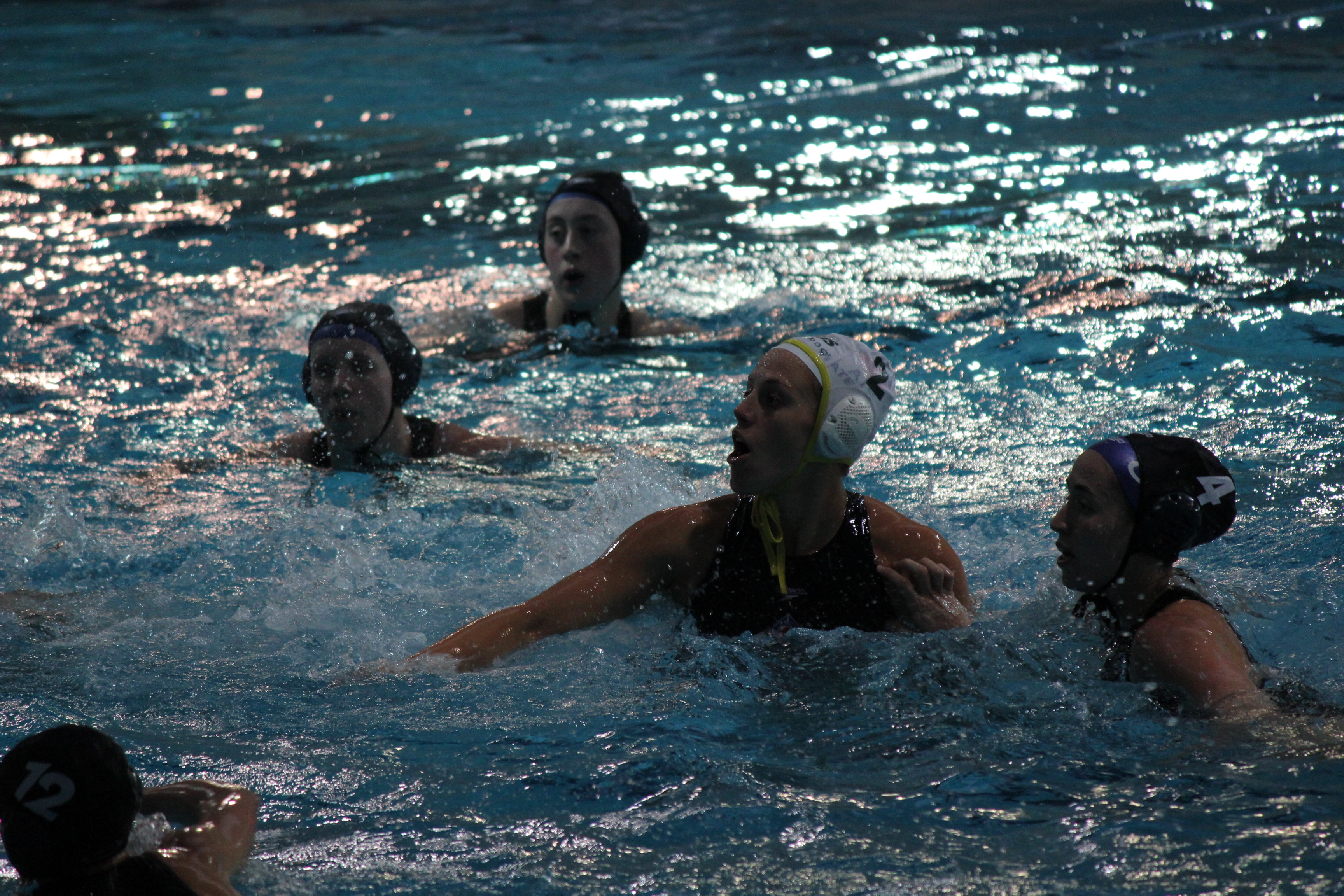 Picture of Gemma Beadsworth during the fourth test match between Great Britain and Australia on 27 February 2012 as the AIS Aquatic Centre. Australia won 14-8.[1]